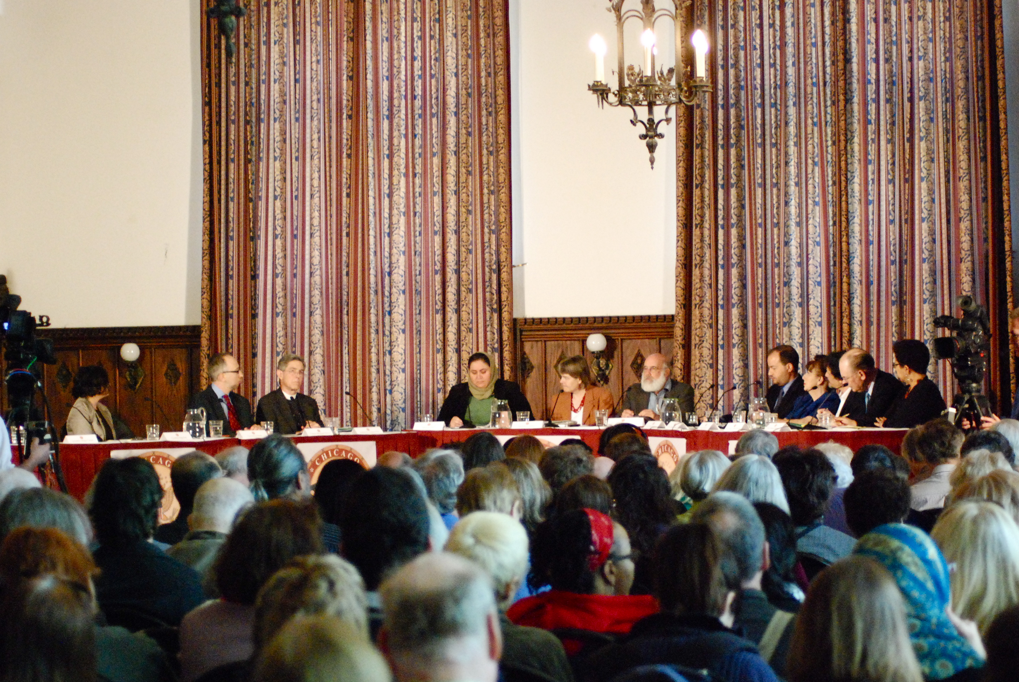 The Chicago Hearing held at the University of Chicago.